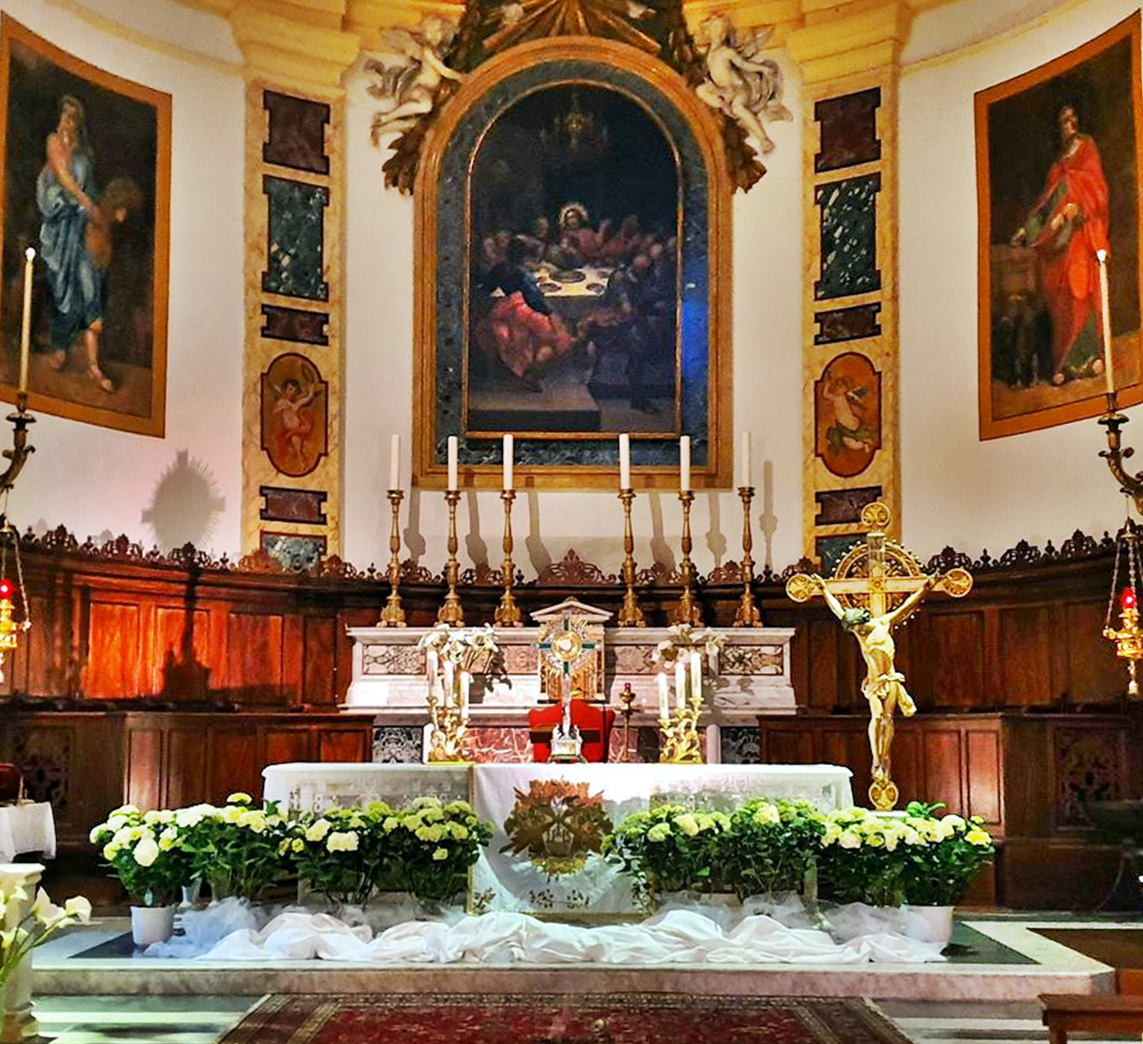 San Benedetto del Tronto, altar of the church of San Benedetto martire.